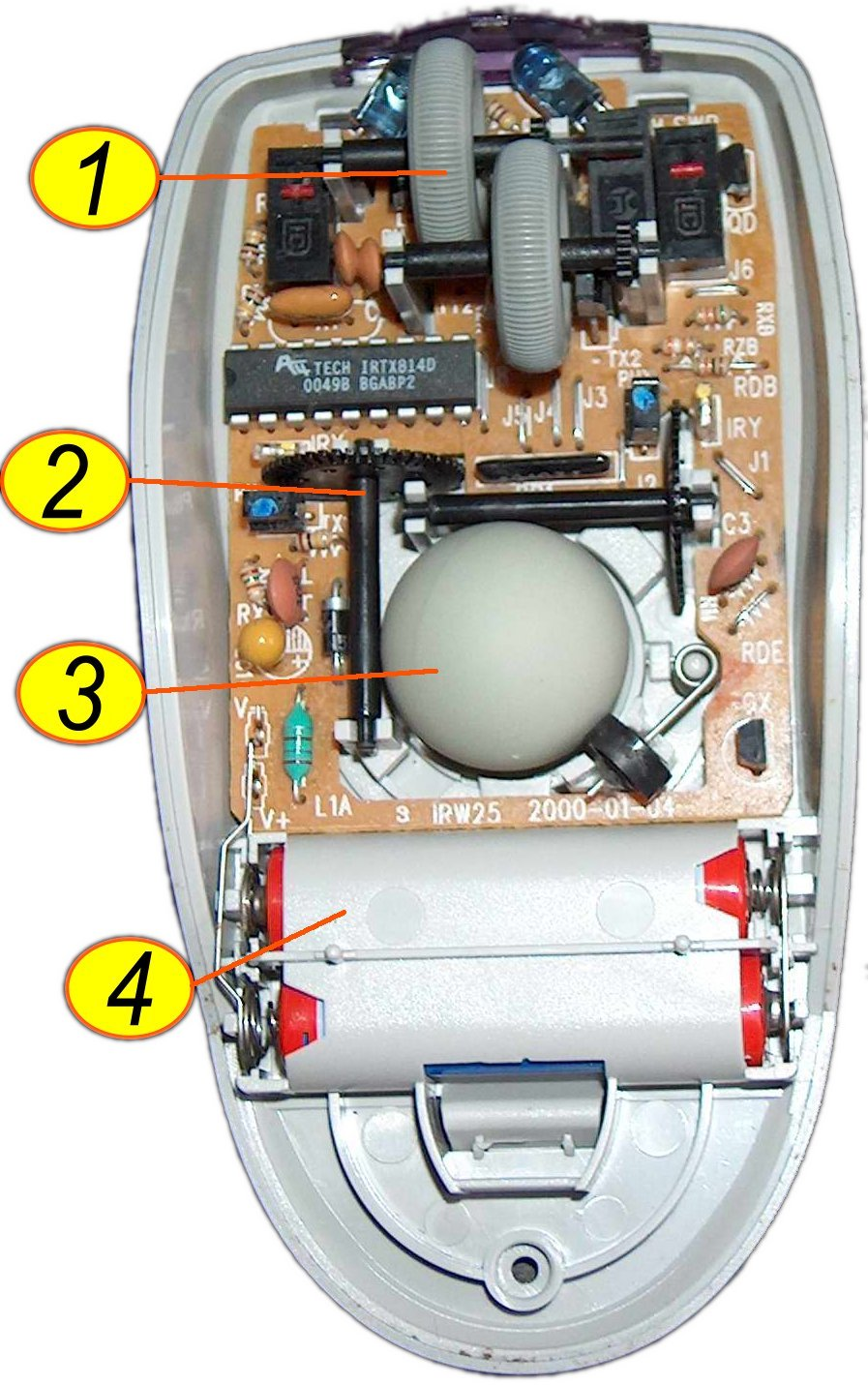 Internal view of a wireless mechanical mouse